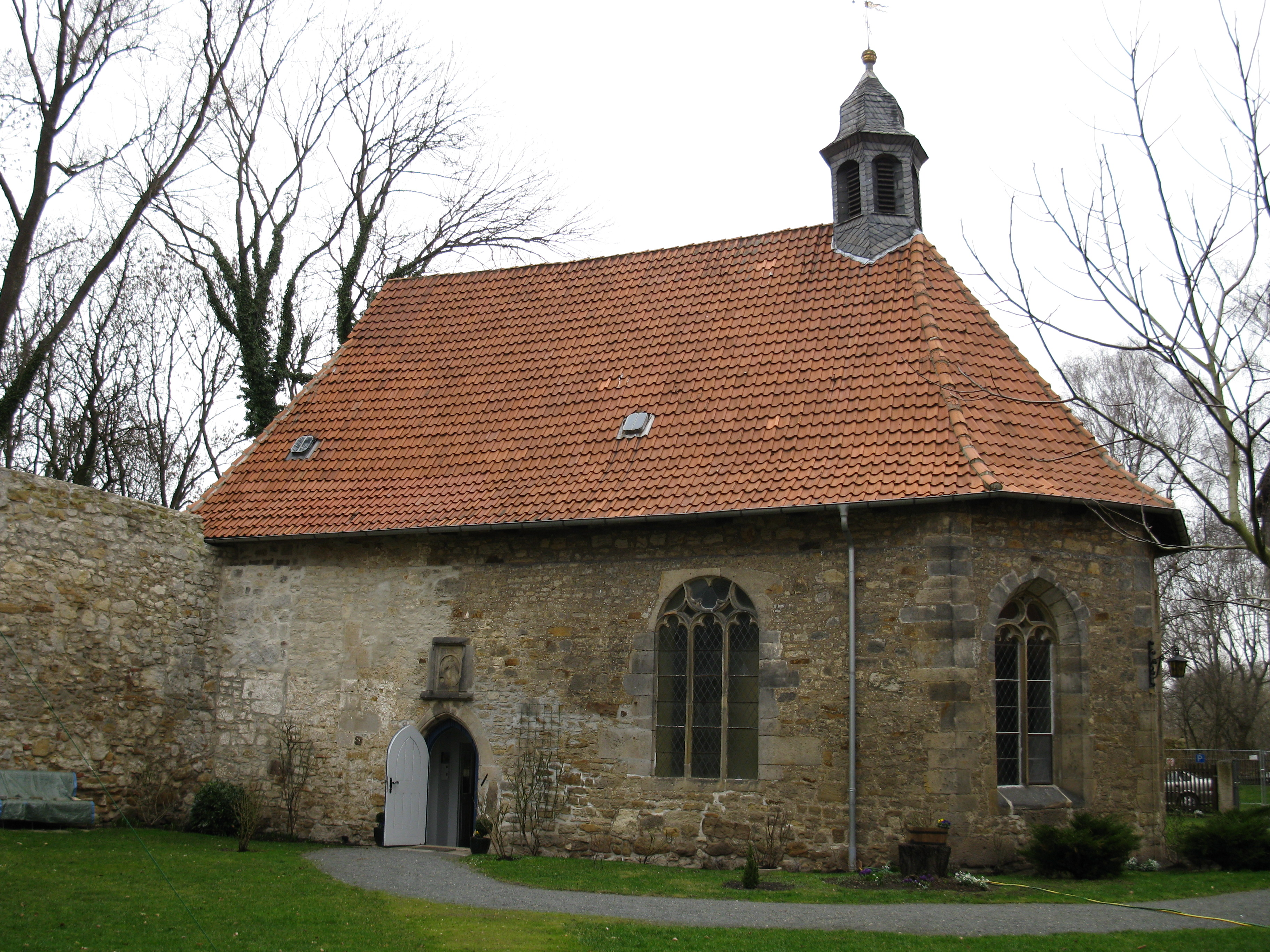 Saint Magdalena chapel, Hildesheim